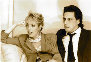 Maria O'Brien and Charles Dennis - The leading actors in Going On